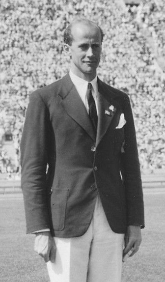 1932 OLYMPIC PENTATHLON WINNERS Vintage Medal Stand Photo